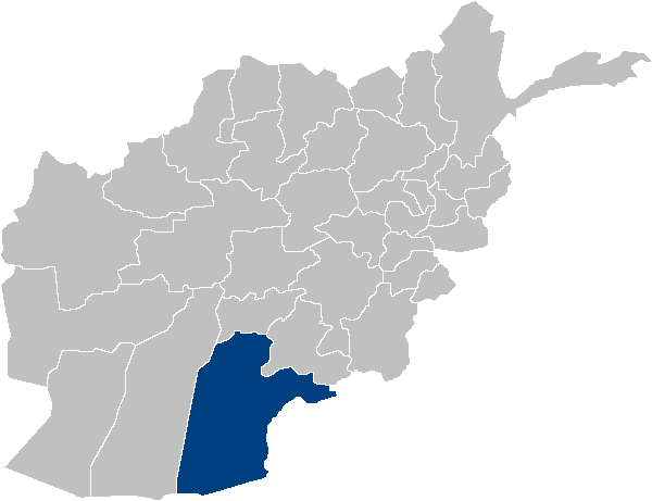 Location map for Kabul Province in Afghanistan. Original map source: Image:Afghanistan_provinces_blank.png